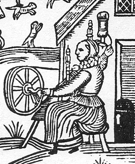 Woodcut with woman spinning with a spinning wheel